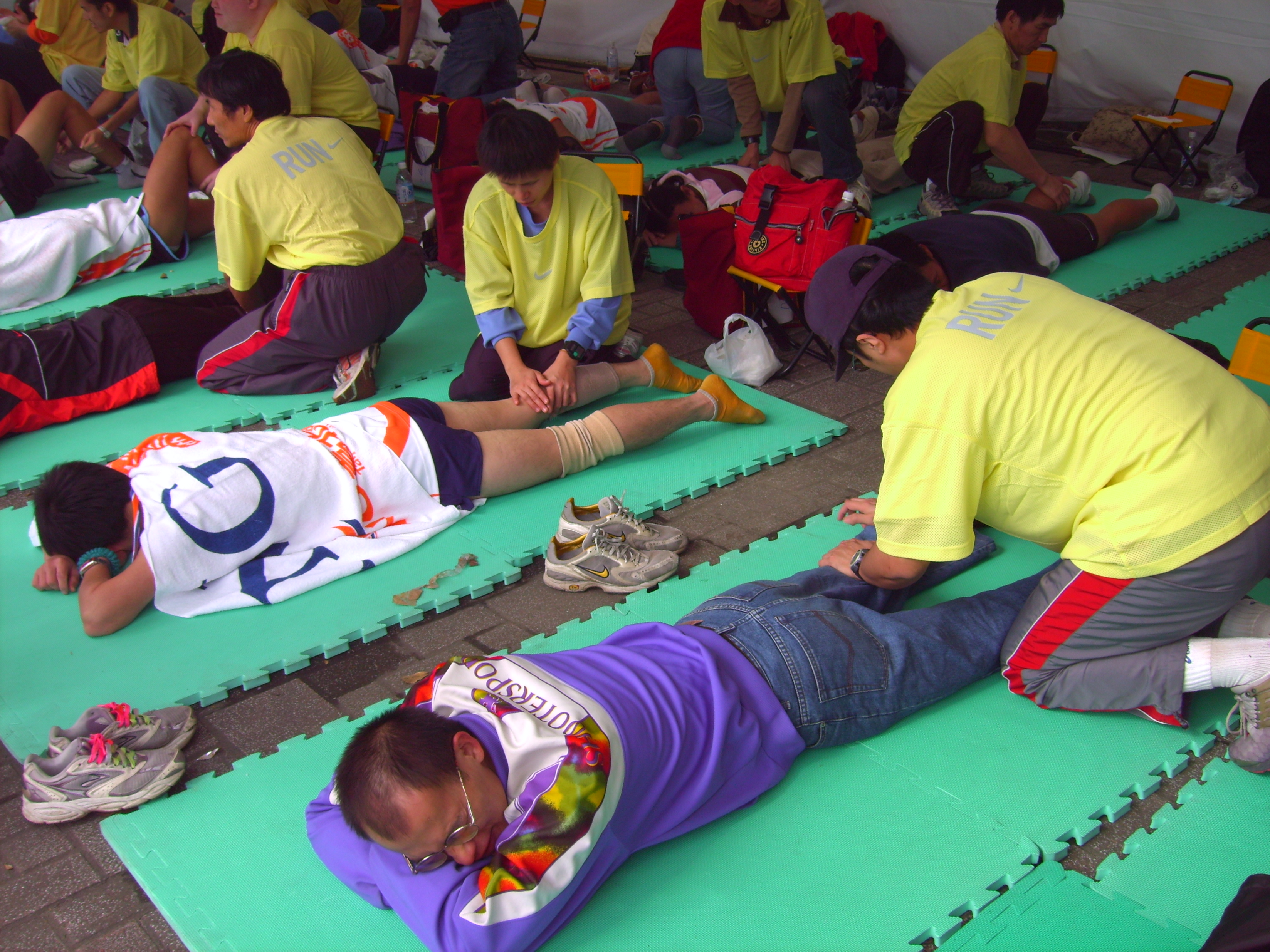 Nike Taiwan provide marathon runners massage area from 2004 ING Taipei International Marathon.